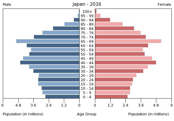 The population pyramid of Japan illustrates the age and sex structure of population and may provide insights about political and social stability, as well as economic development. The population is distributed along the horizontal axis, with males shown on the left and females on the right. The male and female populations are broken down into 5-year age groups represented as horizontal bars along the vertical axis, with the youngest age groups at the bottom and the oldest at the top. The shape of the population pyramid gradually evolves over time based on fertility, mortality, and international migration trends.